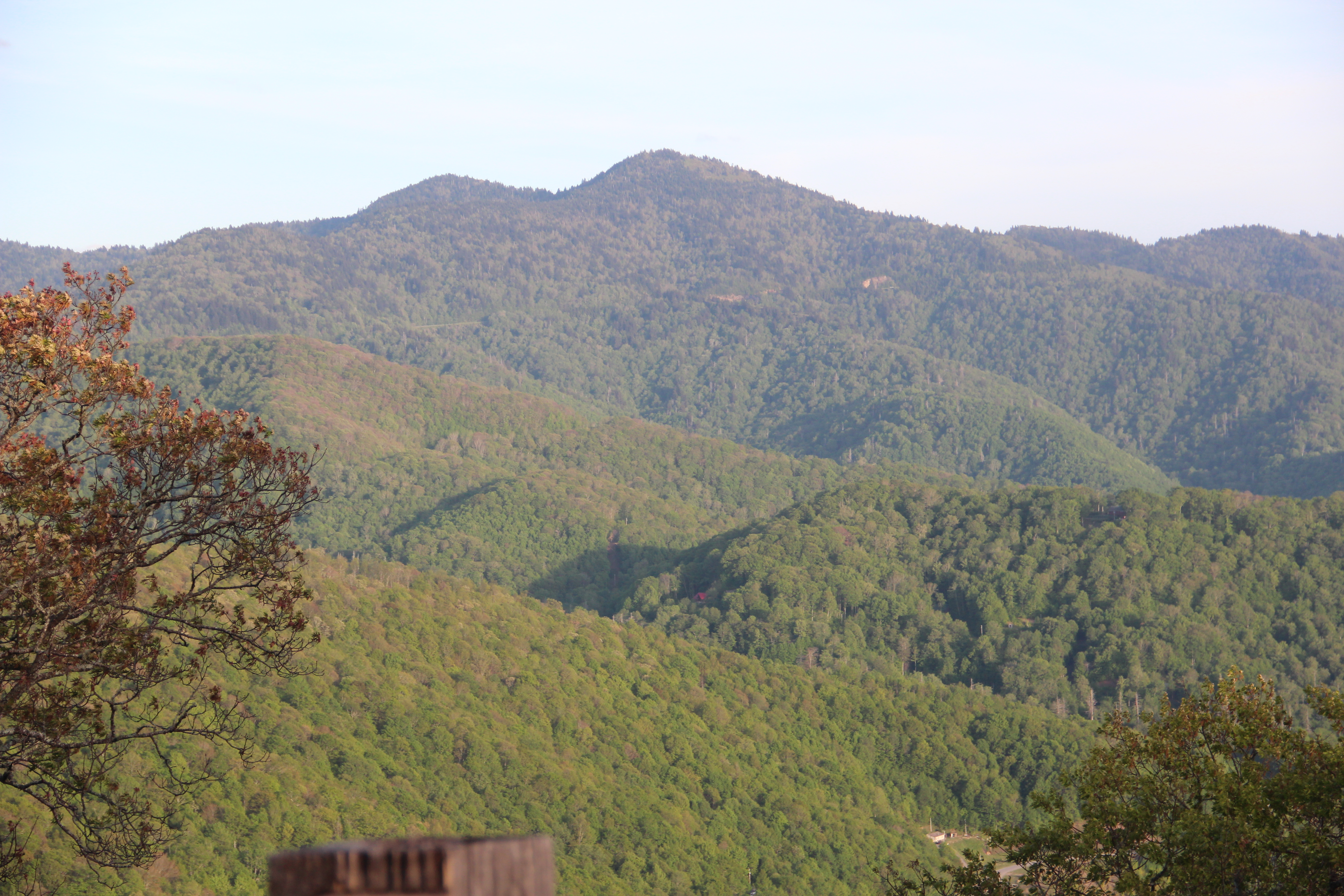 Waterrock Knob viewed from the Plott Balsams overlook